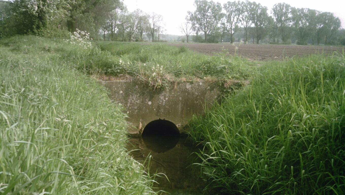 Aqueduct of Hammer Bach Creek, crossing the Alsbach Creek, near Viersen, Germany.